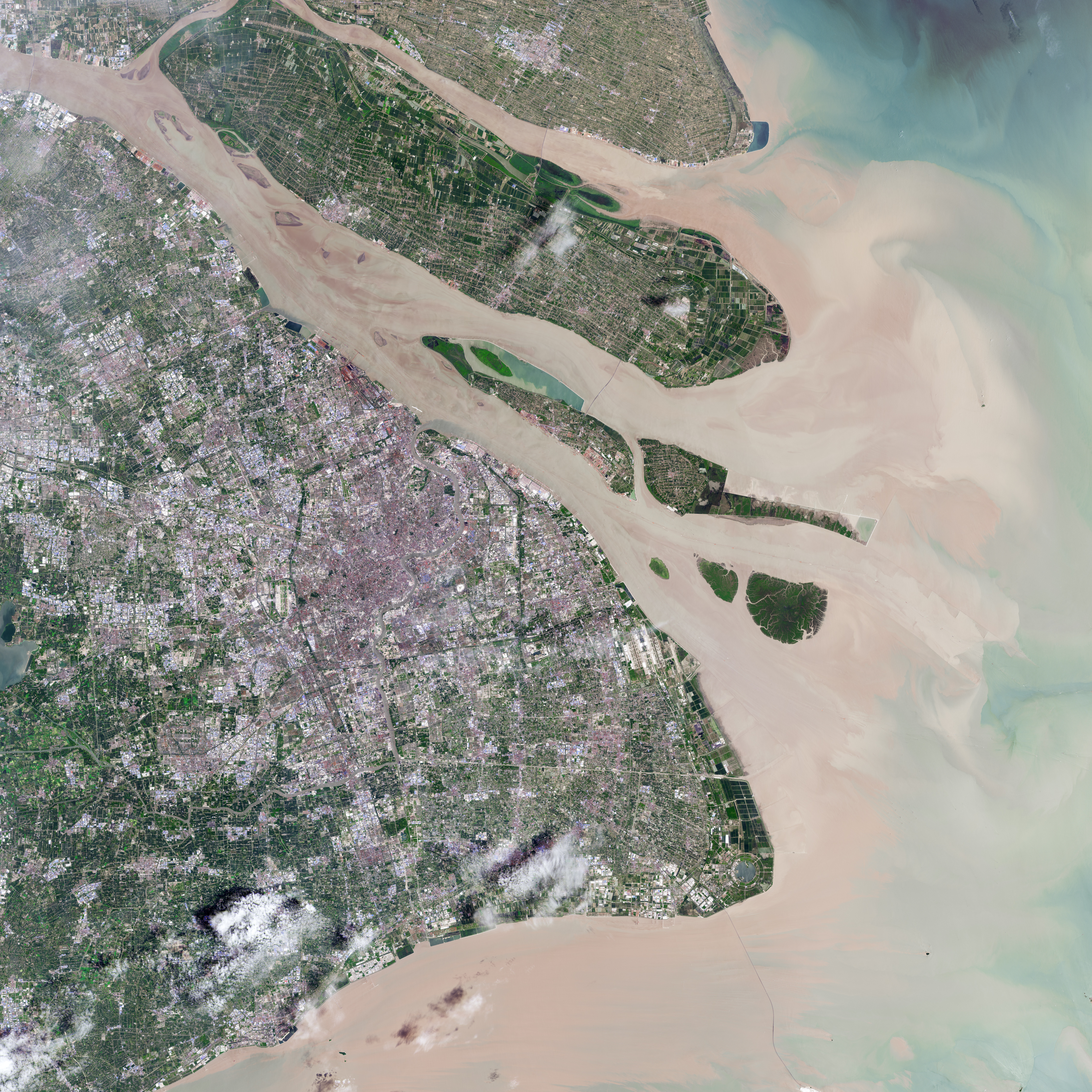 The Landsat satellite imagery of Shanghai on July 20, 2016 presents the sprawling city proper of this municipality.